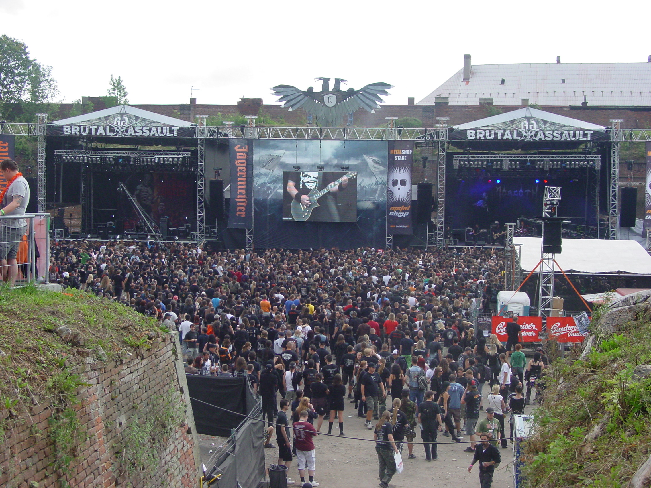 Brutal Assault 2012 - view on the main stages